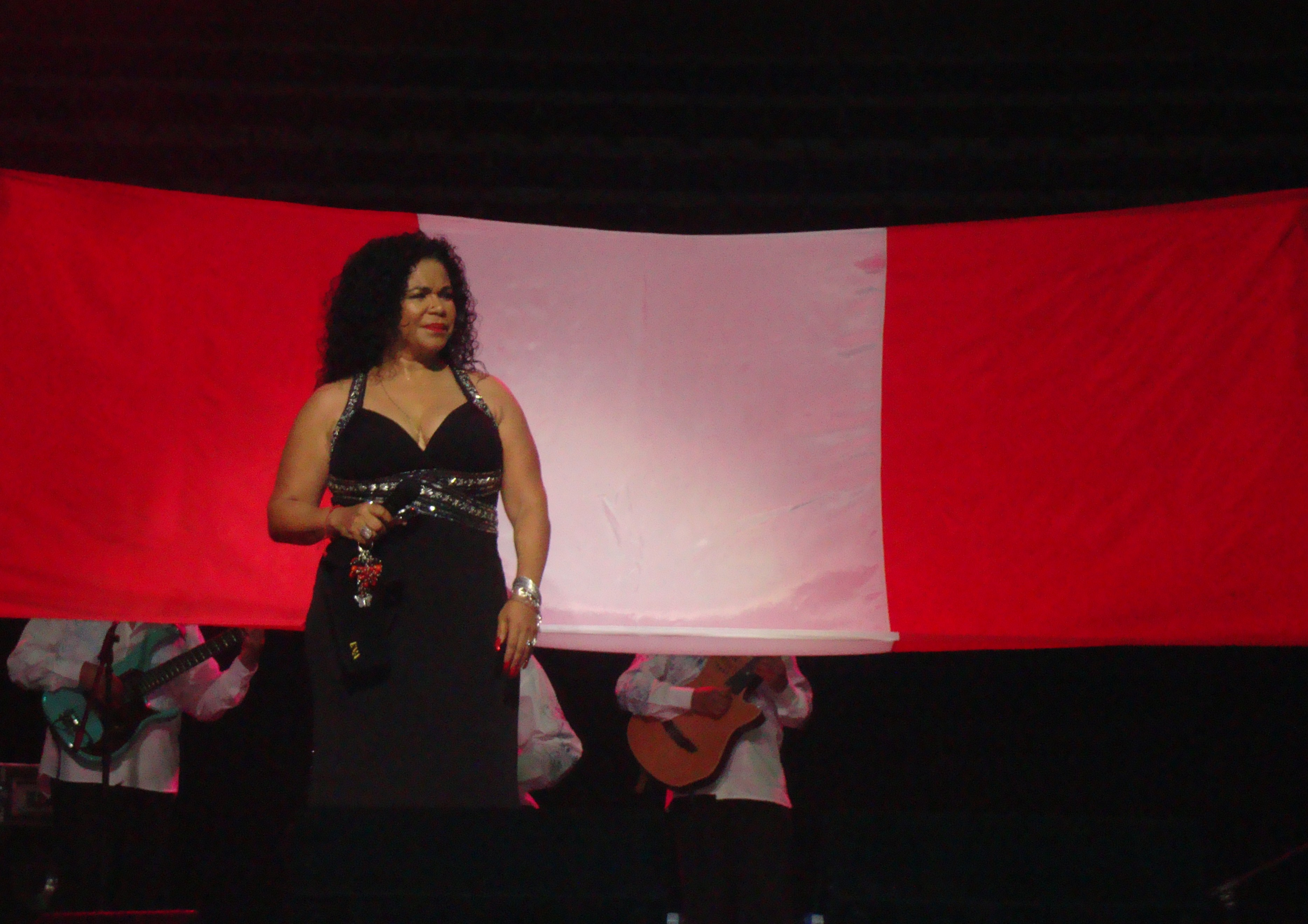 Eva Ayllon at the Sydney Opera House